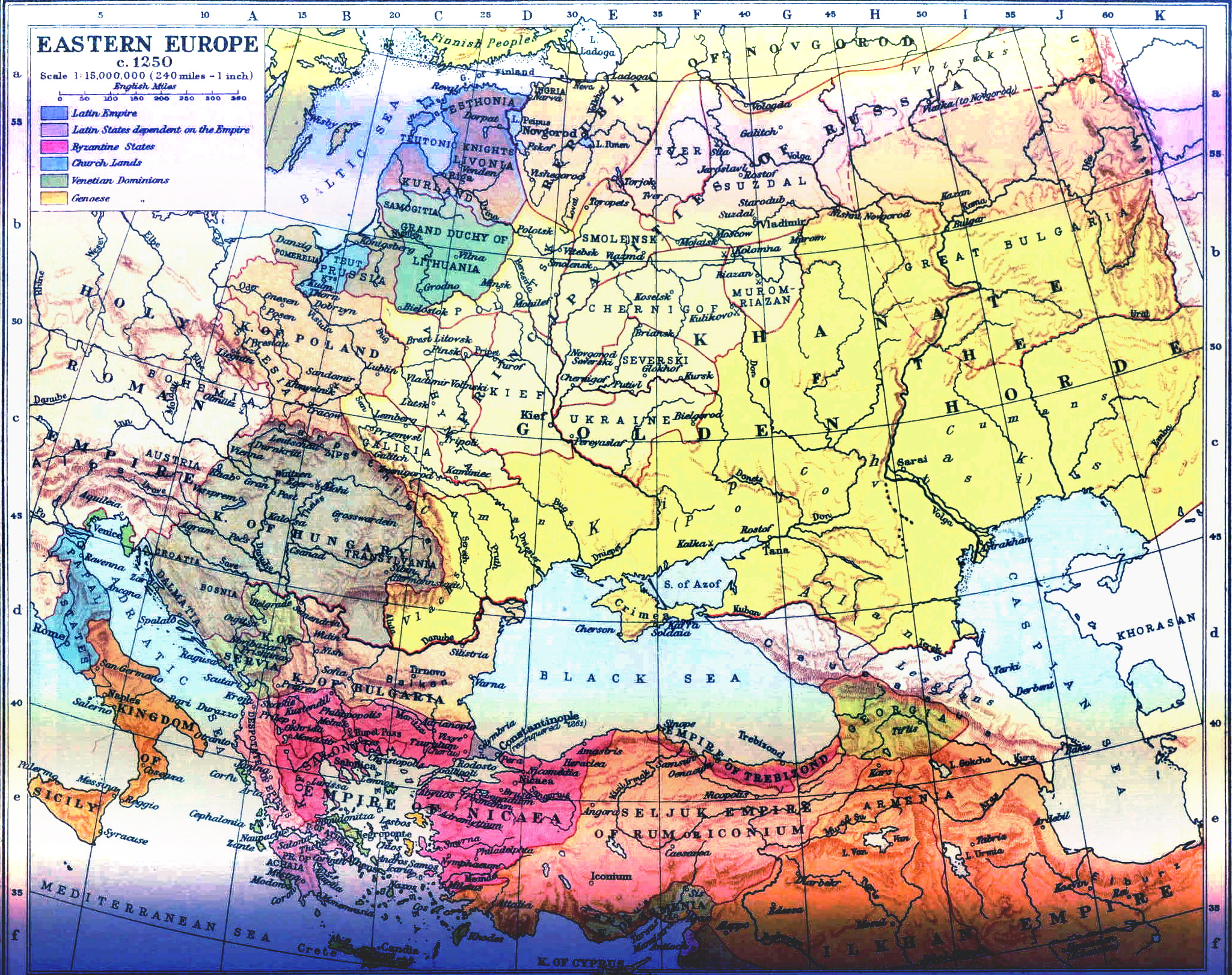 Eastern Europe around 1250